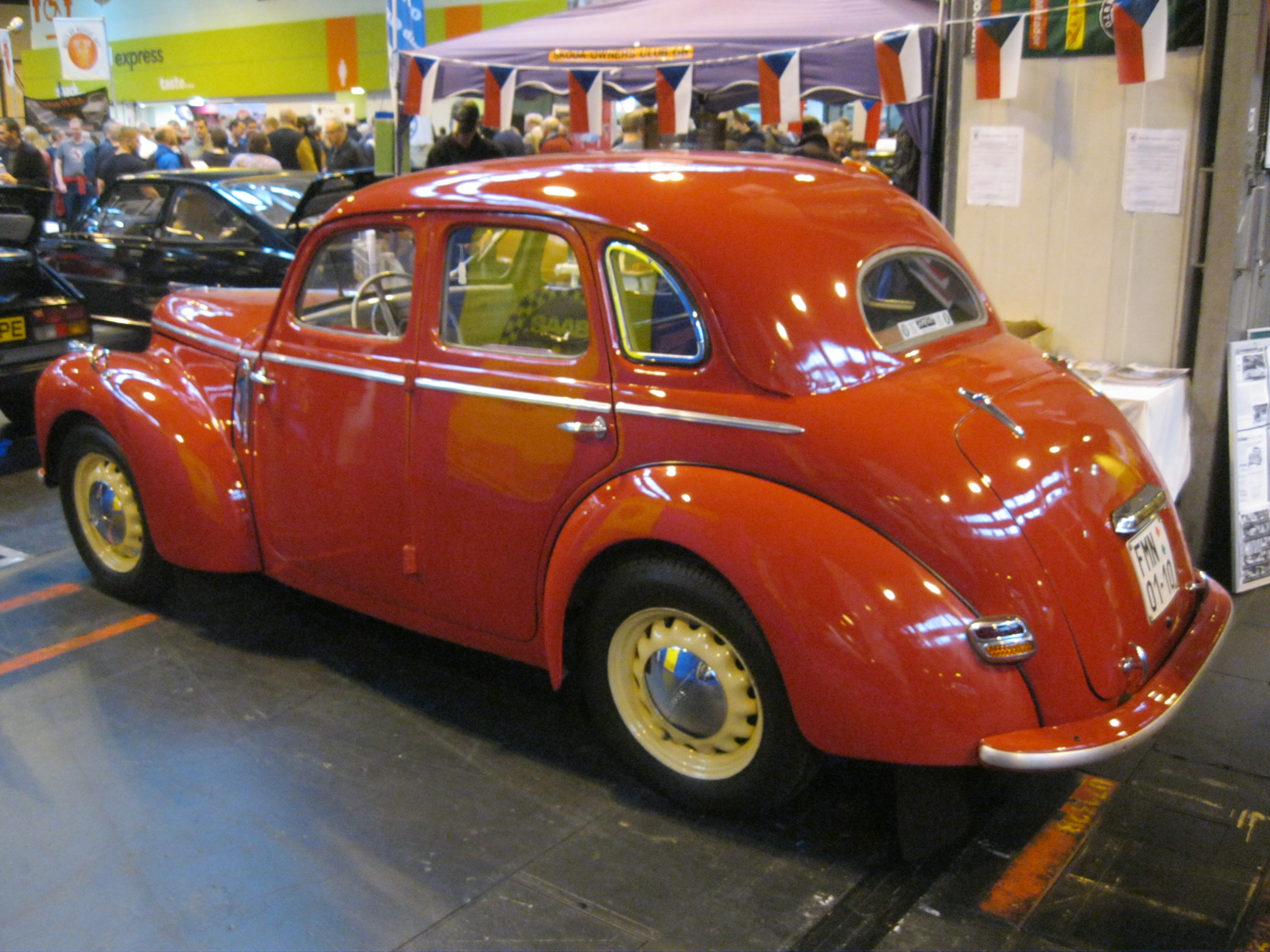 Exhibited at the NEC Birmingham Classic Car Show, November 15-17, 2013